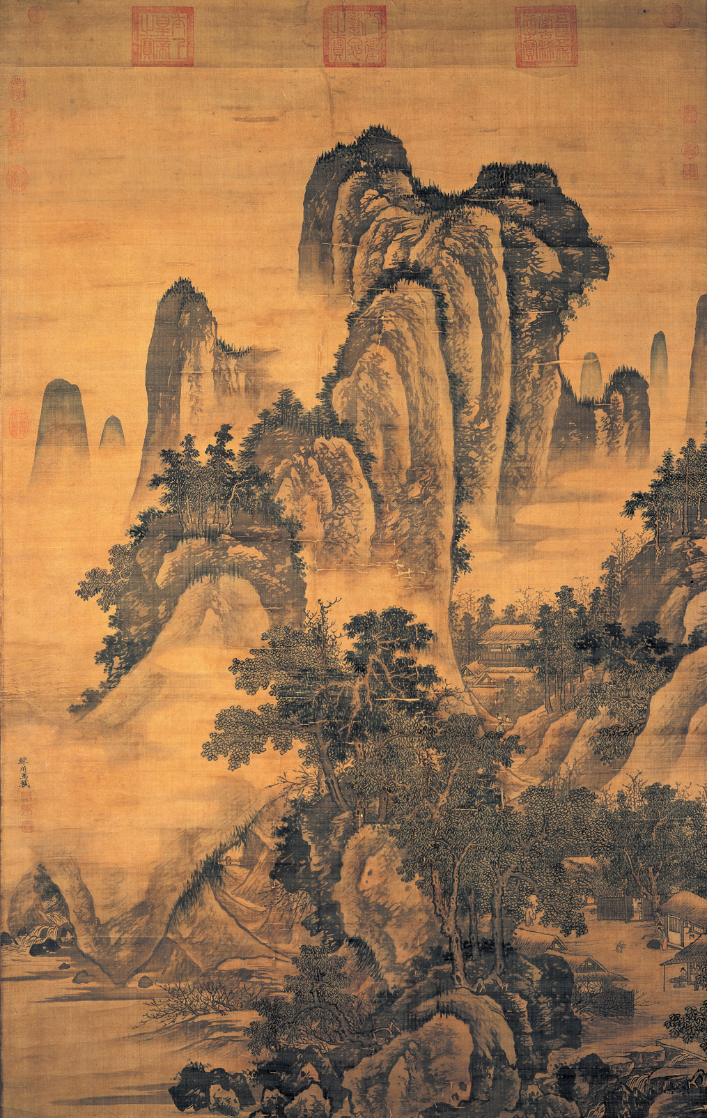 Living in a Mountain Village in Spring, hanging scroll, Color on silk, 178.6 x 112.1 cm. Located at the National Palace Museum, Taibei.